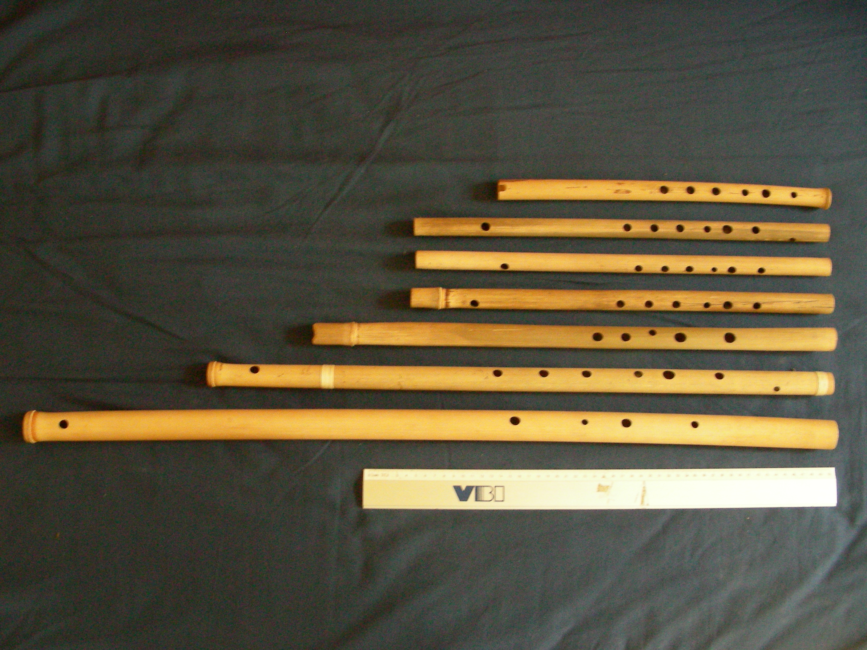 several types of bamboo flutes (bansuri, 5-hole shakuhachi and kena) with 50 cm ruler